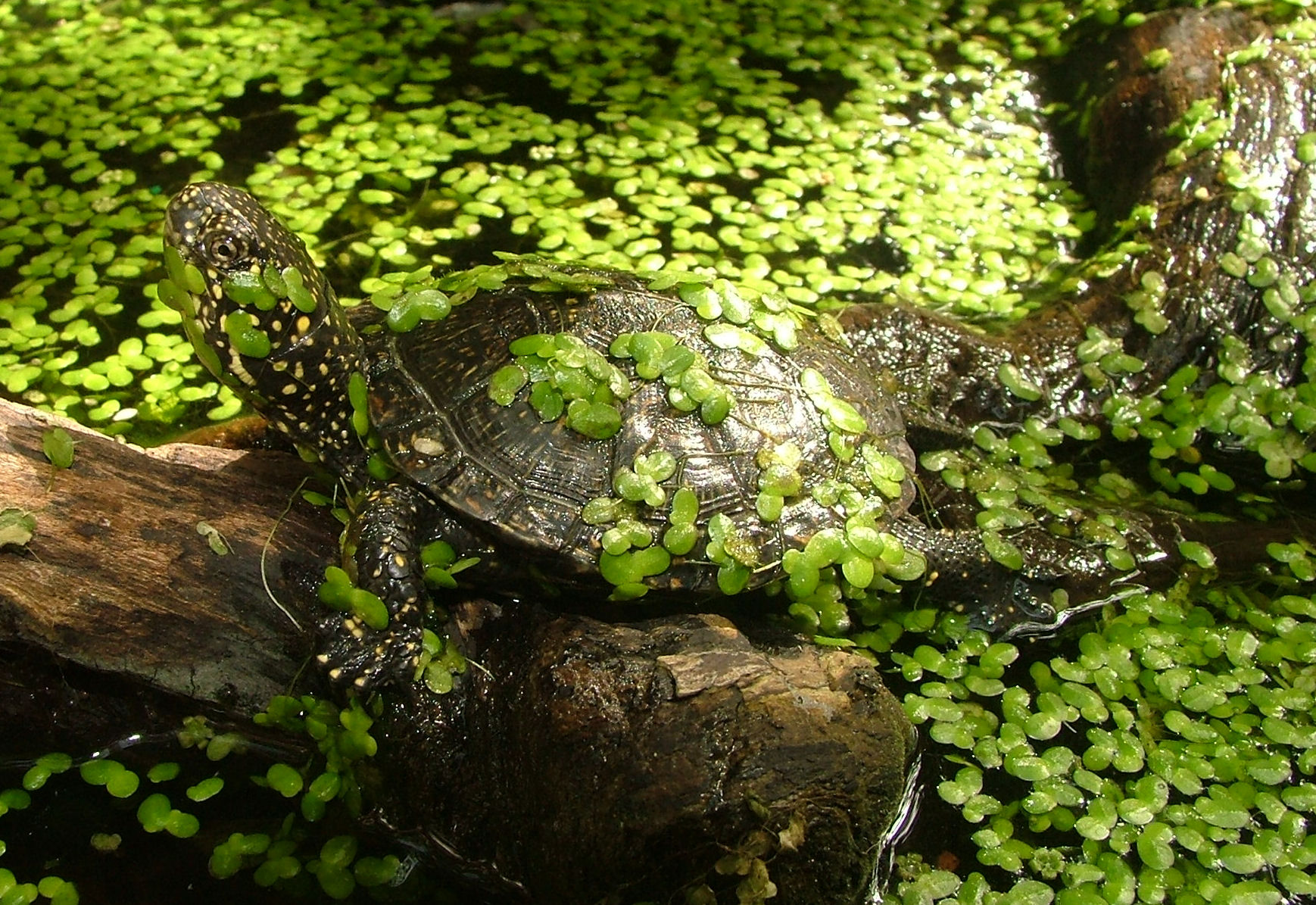 Emys orbicularis galloitalica, Tuscany, Italy